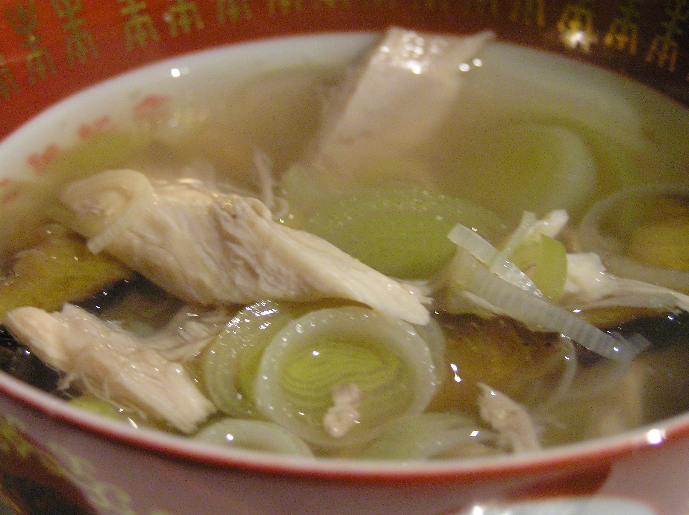 From a Scottish recipe book: stock made from simmering a whole chicken, shreds of meat from the same chicken, leeks, and prunes.